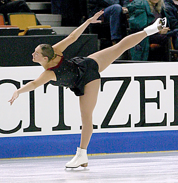 Shirene Human of South Africa does a spiral in her short program at the 2004 Four Continents Championships in Hamilton, Ontario. Photo by me, Vesperholly 20:29, 17 July 2006 (UTC)